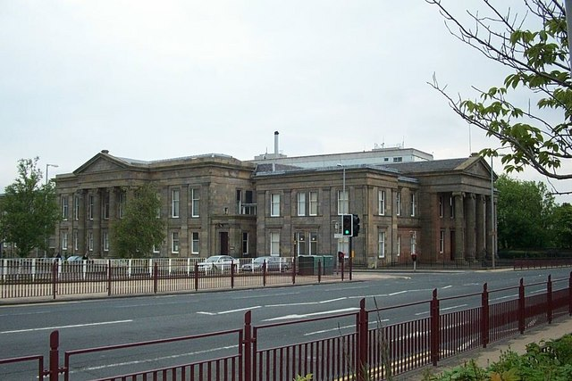 Sheriff Court, Hamilton On the corner of Beckford Street and Almada Street.